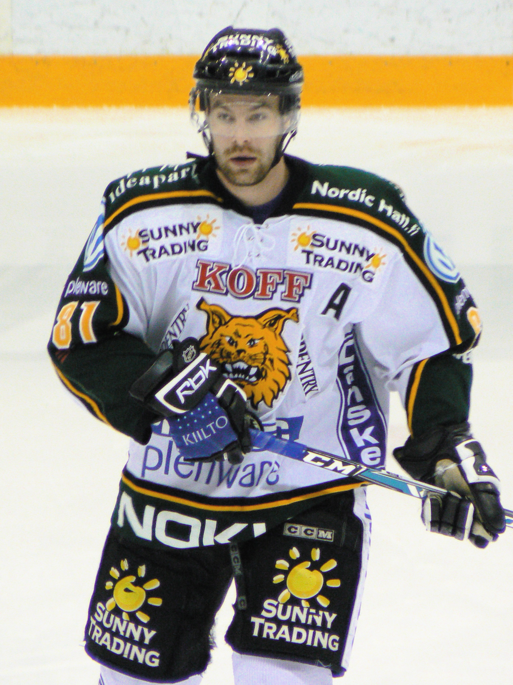 Finnish ice hockey defenseman Arto Tukio of Ilves Tampere in March 2008.